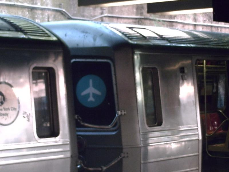 The discontinued JFK Express logo on the Franklin Avenue Shuttle